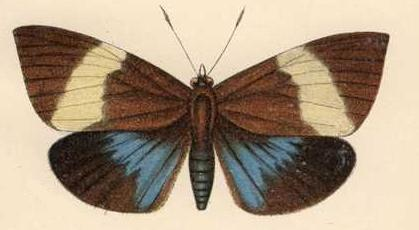 Original lithograph delicately printed in colour by Wyman and Sons Ltd for “A Handbook to the Order Lepidoptera” by W.F. Kirby , Assistant in the Zoological Department of the British Museum. Published in London by Edward Lloyd circa 1897 for “Lloyd's Natural History. Size of print is 7 x 4.5 inches or 18 x 12cm